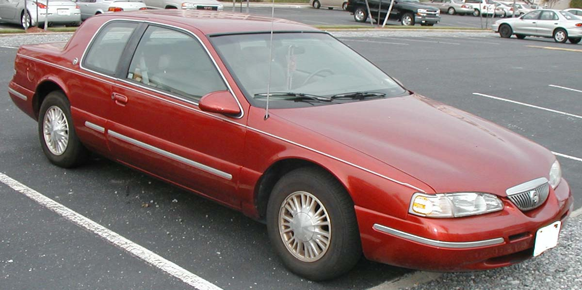 1996-1997 Mercury Cougar photographed in USA.